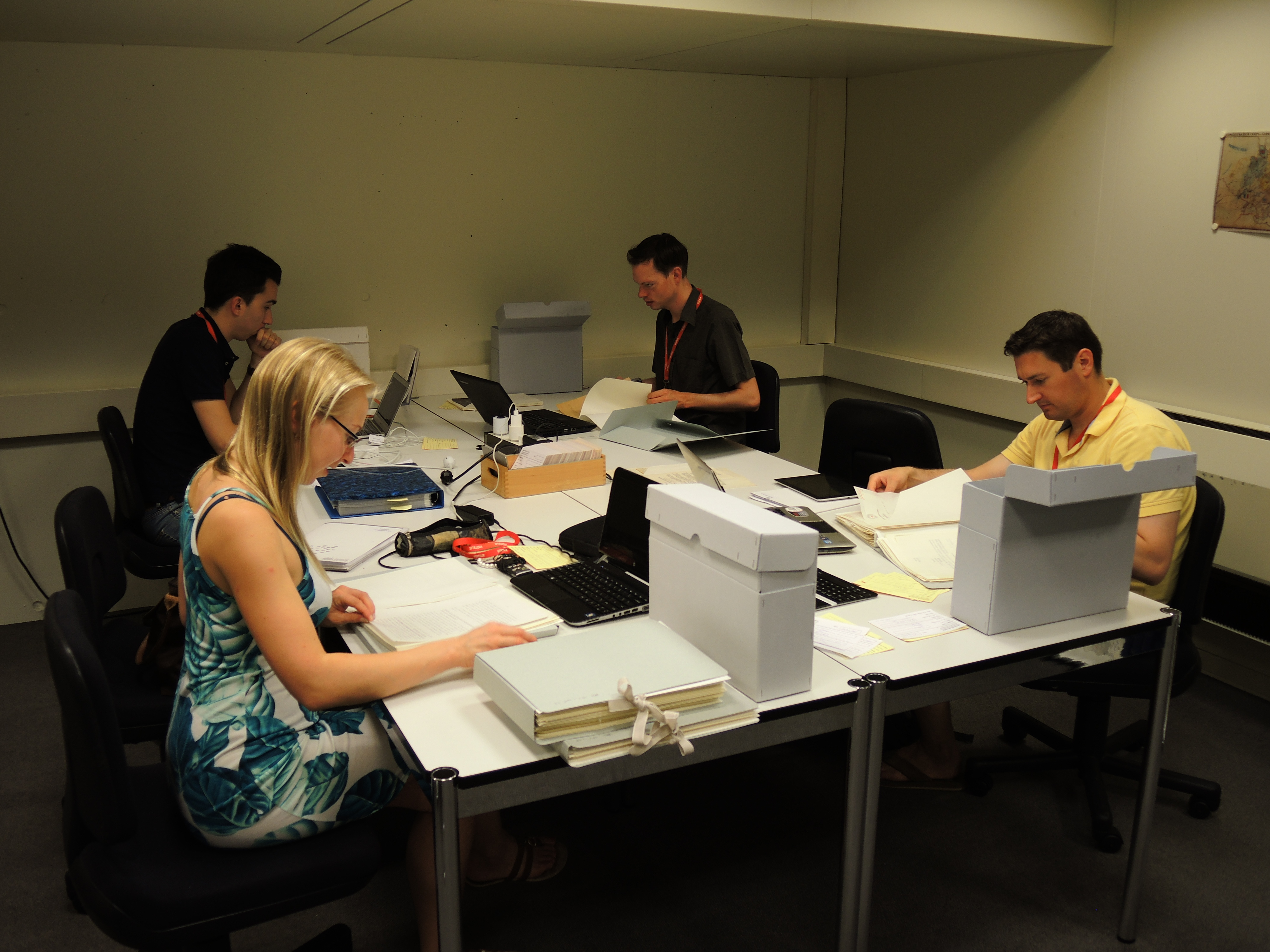 Participants of the Global Humanitarianism Research Academy 2015, Archives of the International Committee of the Red Cross, Geneva